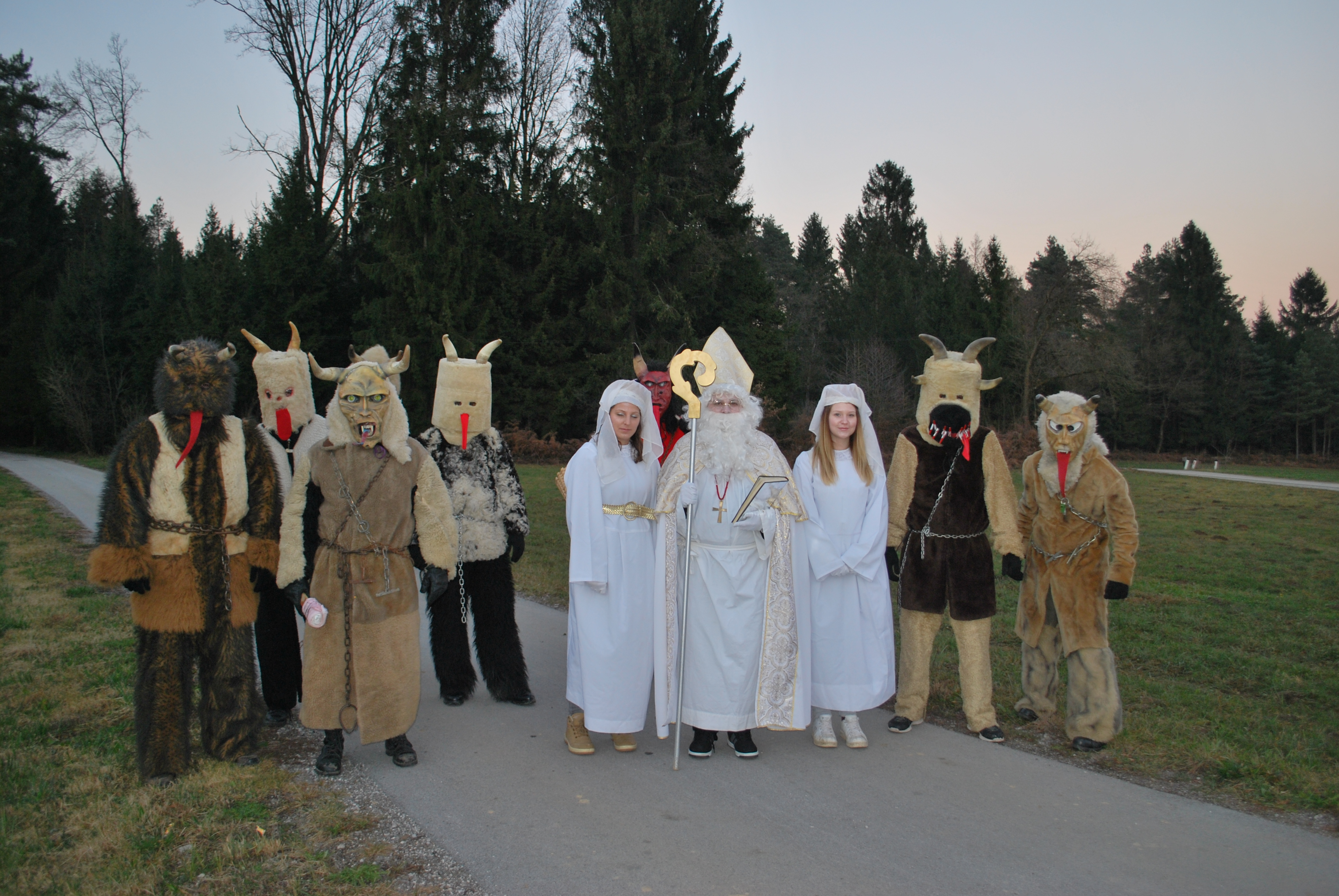 St. Nicholas and claw, the annual procession of the village Šutna (pri Kranju) Dorfarje, Žabnica in order to visit the children at their homes. St. Nicholas procession organized by young boys and girls from the village Šutna.